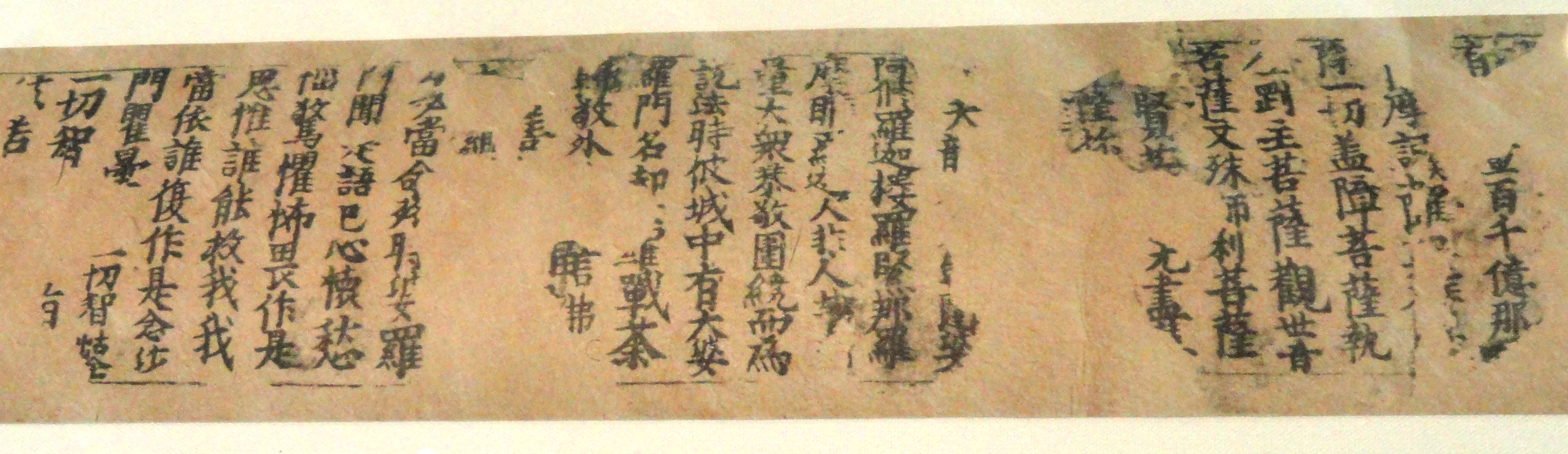 Replica of historic item in the Korean Culture Museum in Incheon Airport, South Korea.